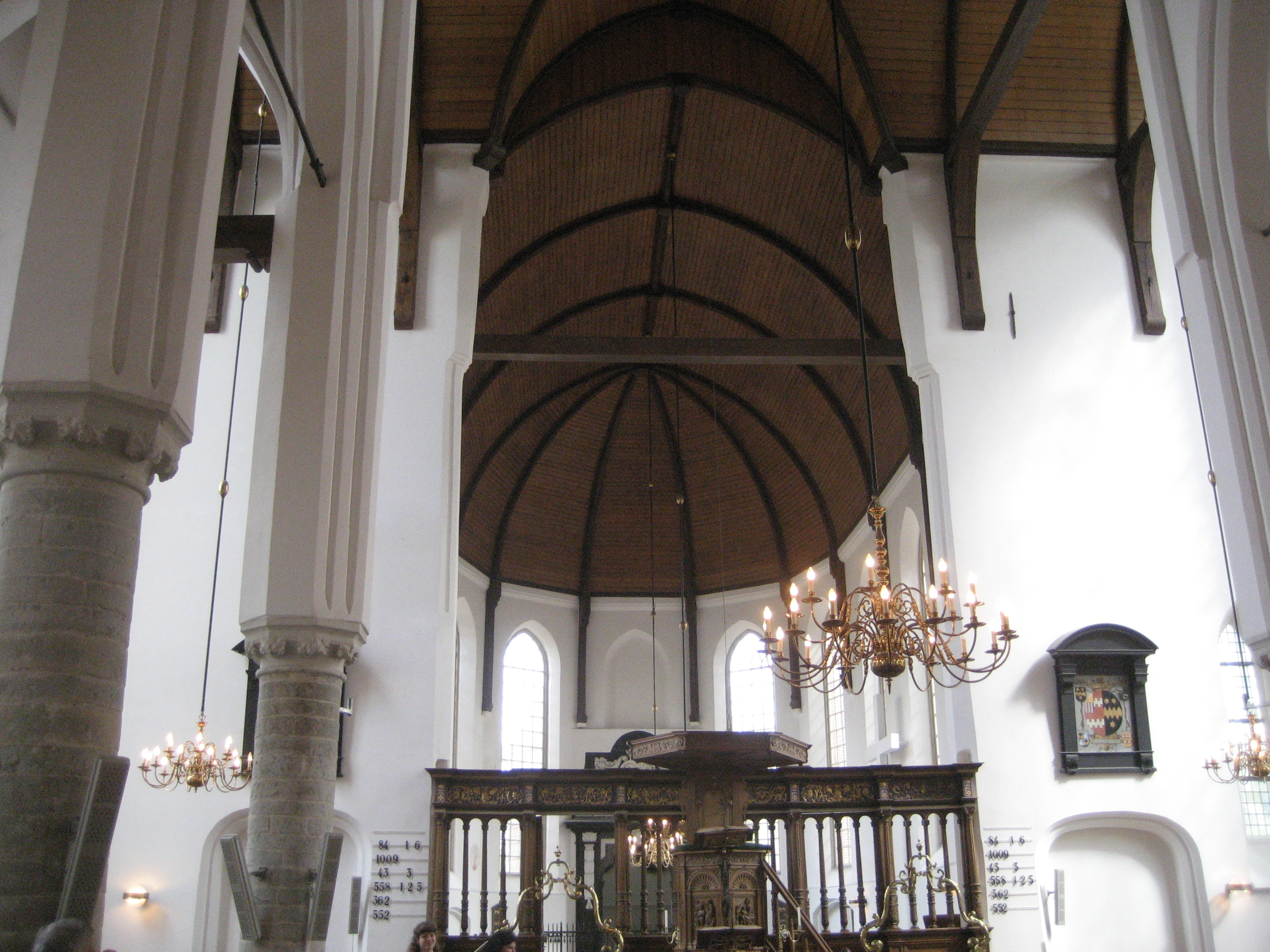 Dorpskerk Abcoude (The Netherlands). Interior